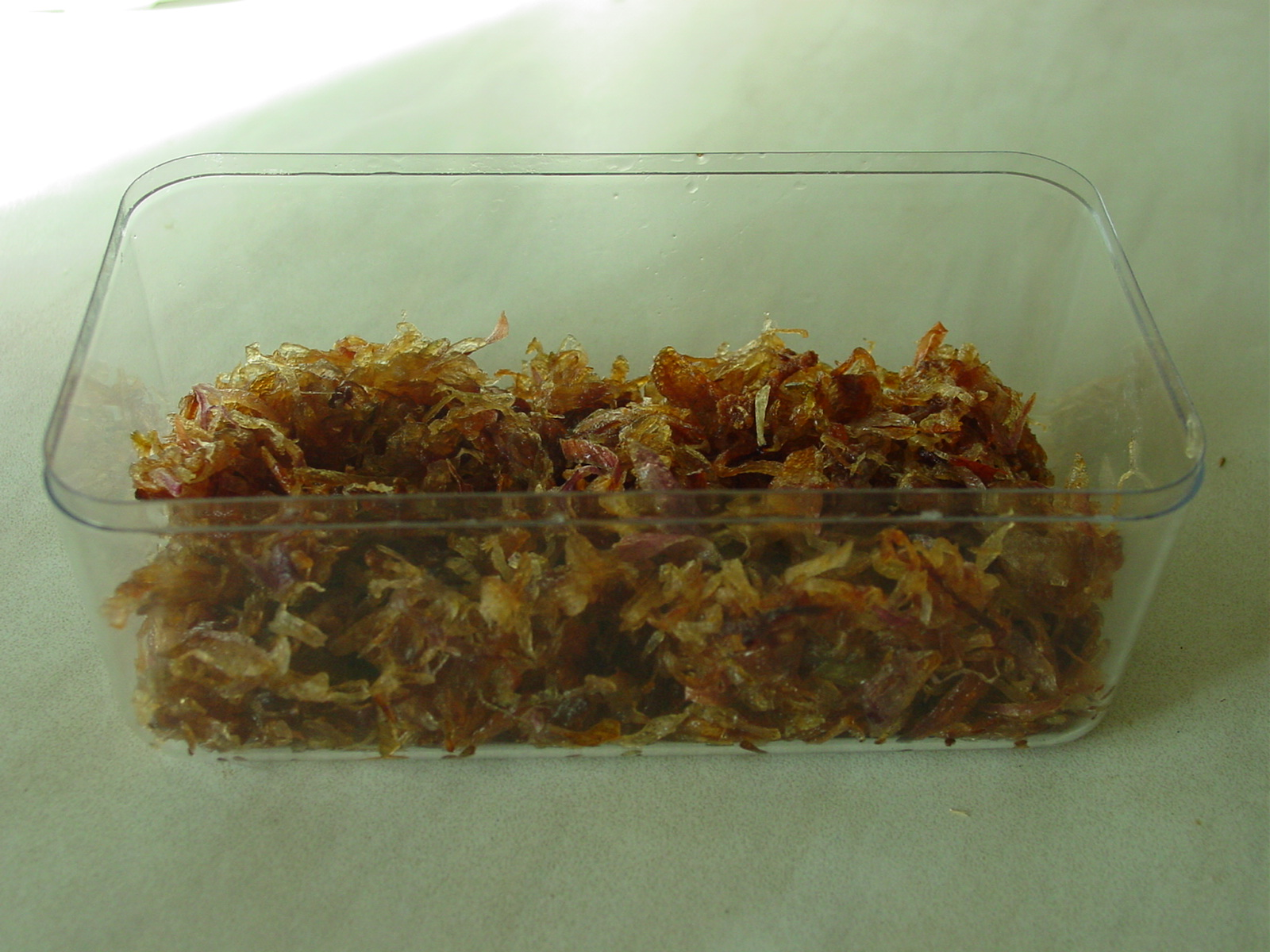 Fried Shallot